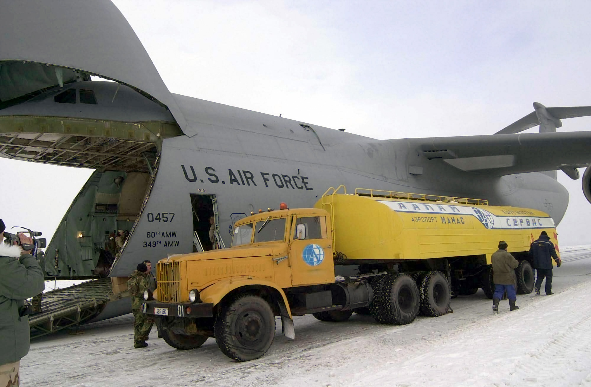 A C-5 Galaxy cargo plane re-fuels at Manas International Airport, Bishkek, Kyrgyzstan on arrival from Ramstein Air Base, Germany, in support of Operation Enduring Freedom. The tank truck is a KrAZ-258.